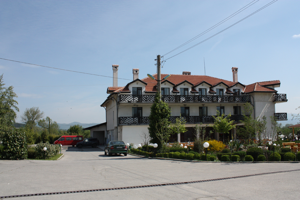 Hotel Complex Dolna Banya, Bulgaria